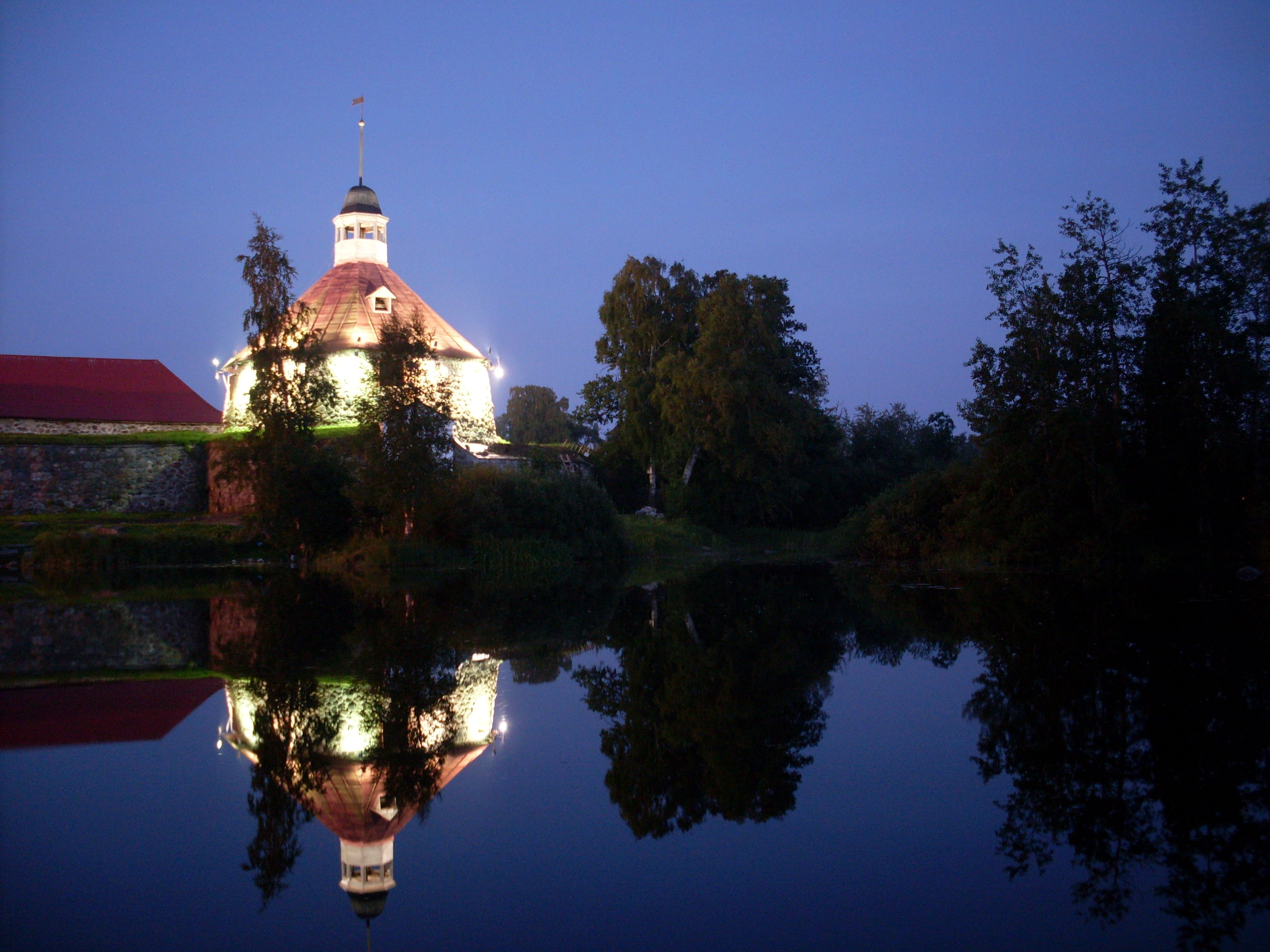 Korela Fort. (now museum). Russia, Leningradskaya oblast, Priozersk sity. Photo taken next to the river Vuoksa